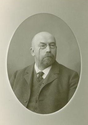 Portrait of Eugene (Евгений) Passek, Professor of Law at the University of Tartu in 1893–1912, Rector of the University of Tartu in 1905–1908